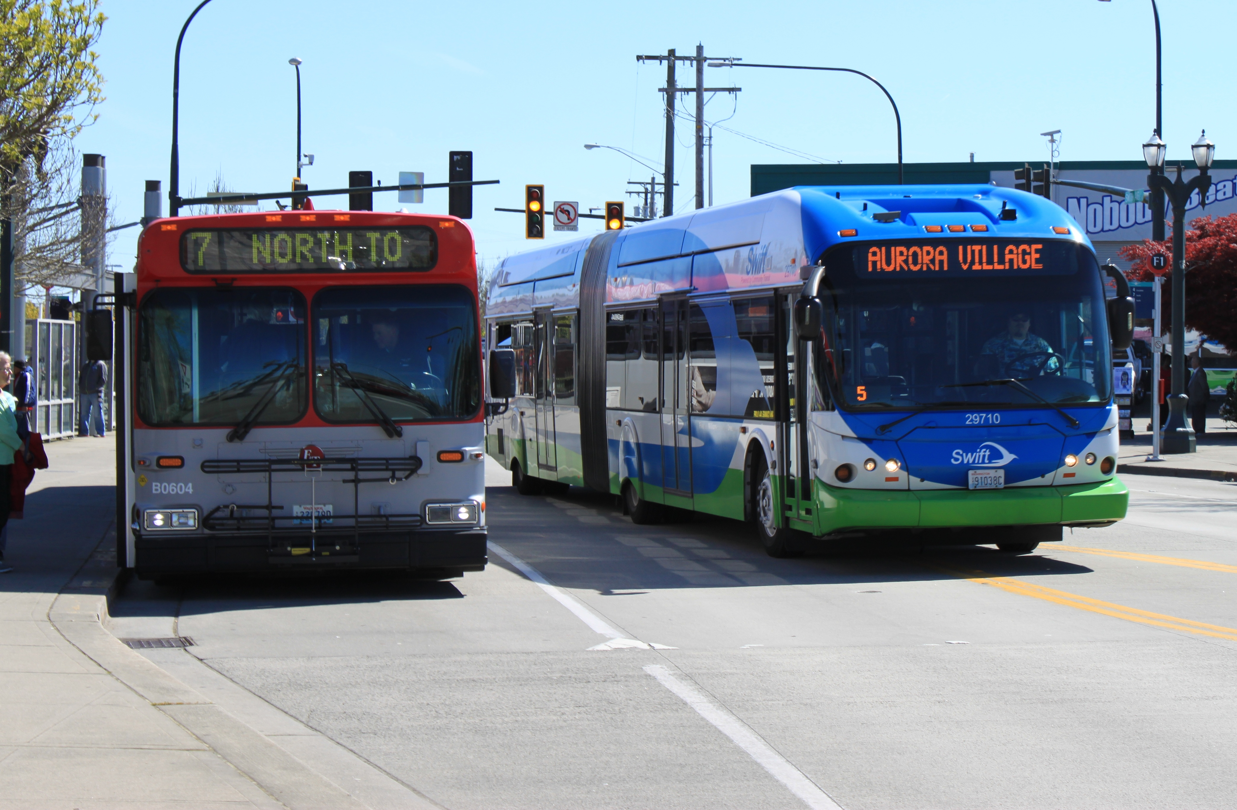 A bus on Community Transit's Swift bus rapid transit line passing a bus on Everett Transit route 7 at Everett Station.